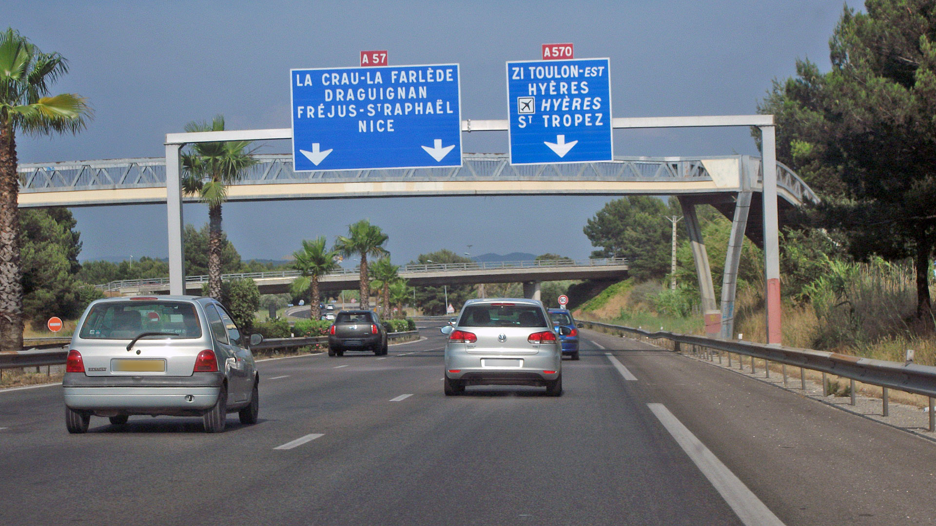 Exchanger between A57 and A570 autoroutes in eastern Toulon, Var, PACA, France.